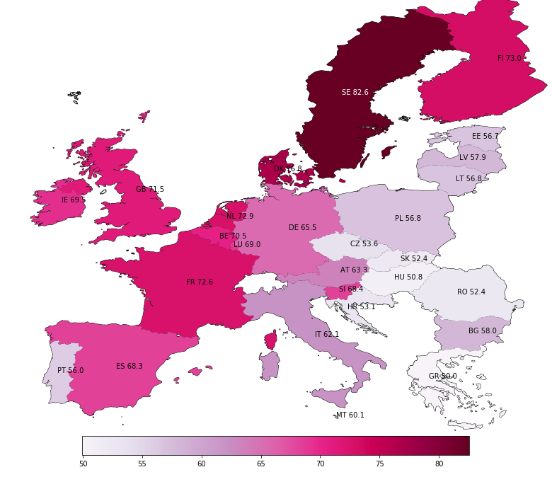 The Gender Equality Index is a composite indicator that measures the complex concept of gender equality and, based on the EU policy framework, assists in monitoring progress of gender equality across the EU over time.